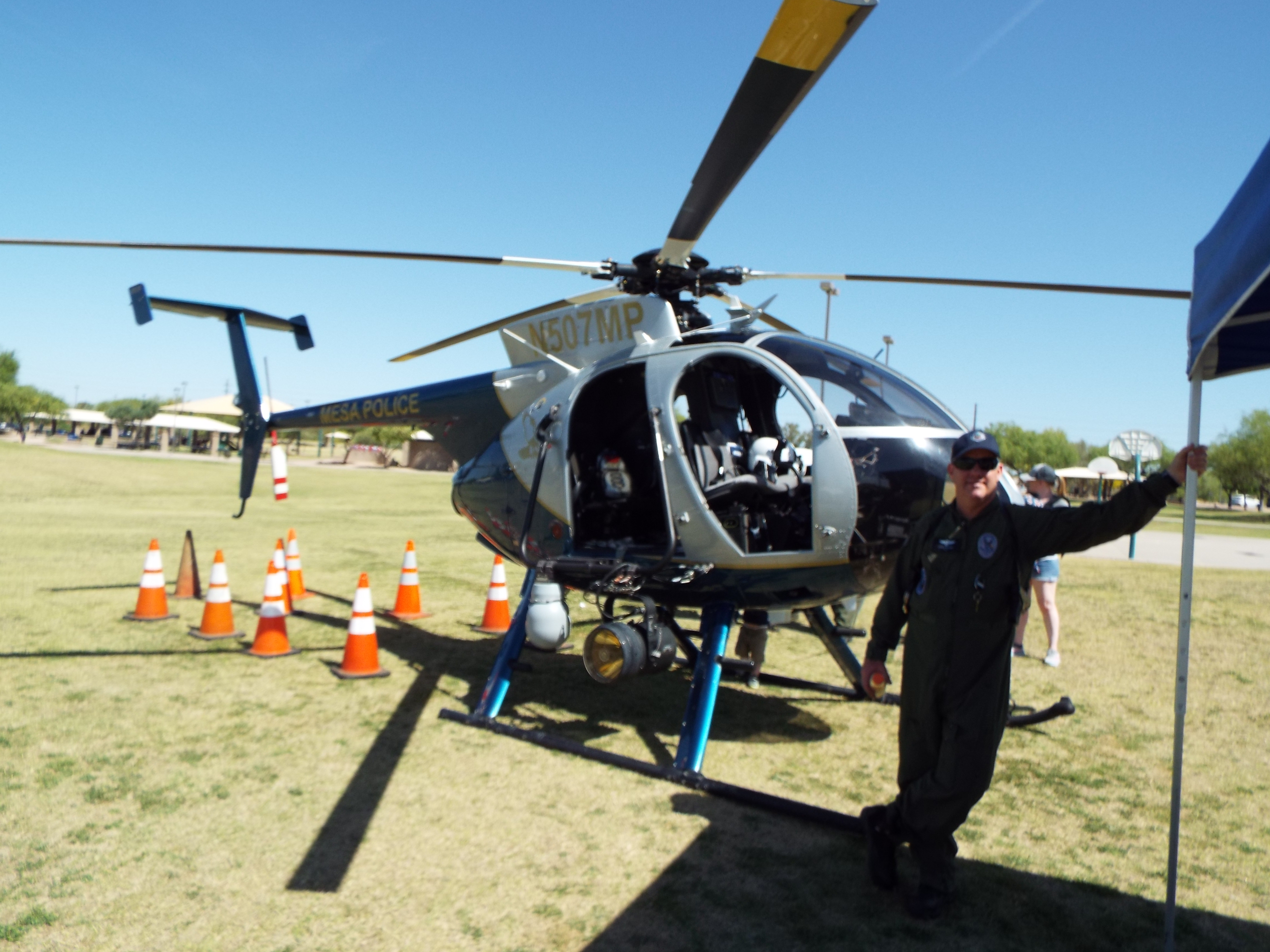 Mesa Police Helicoper-N507MP and pilot